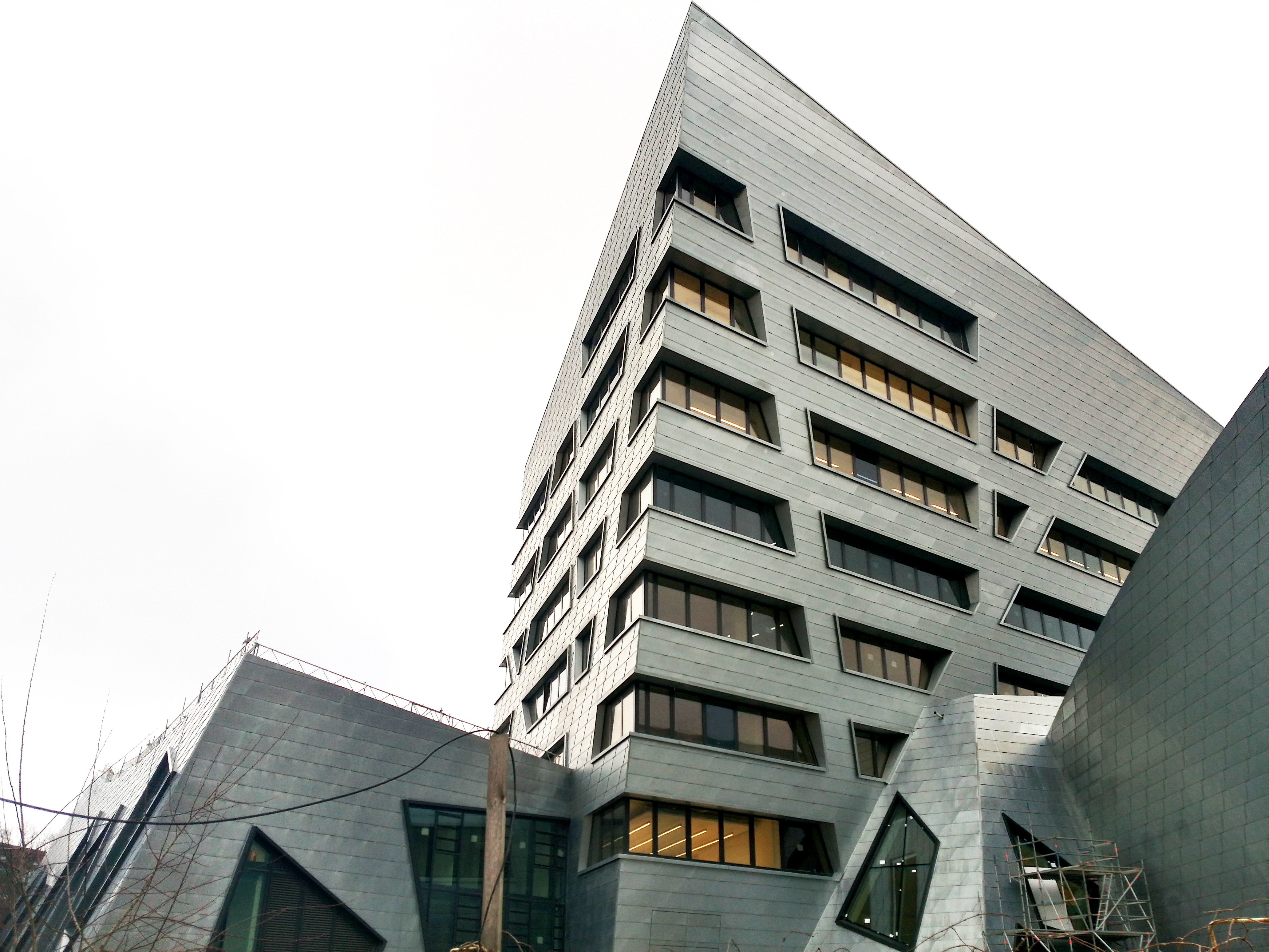 Audimax, University Lüneburg, Lower Saxony, Germany